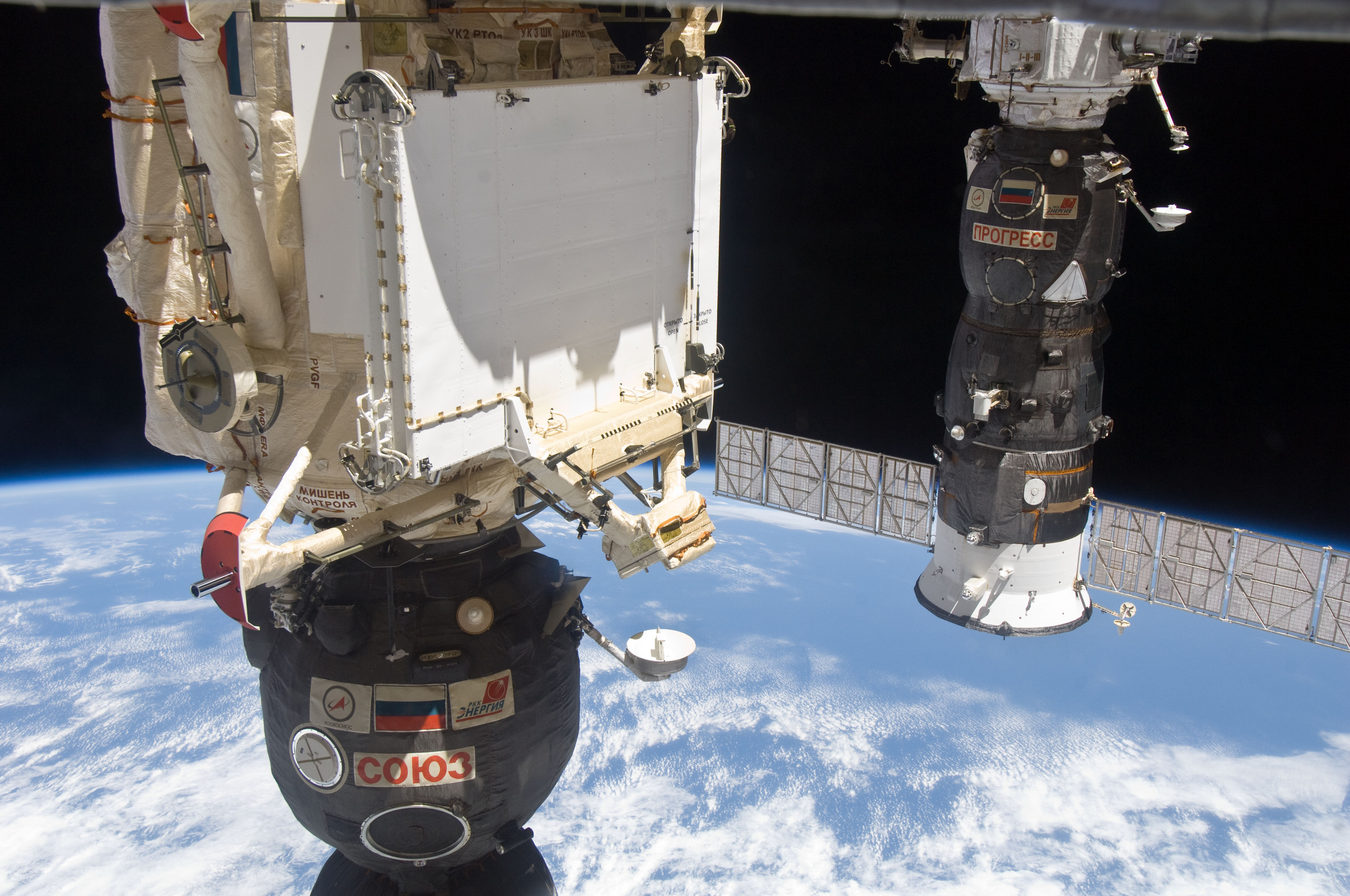 The Soyuz TMA-19 spacecraft (partially out of frame in the foreground), docked to the Rassvet Mini-Research Module 1 (MRM1), and Progress 37 resupply vehicle, docked to the Pirs Docking Compartment, are featured in this image photographed by an Expedition 24 crew member on the International Space Station. A blue and white part of Earth and the blackness of space provide the backdrop for the scene.